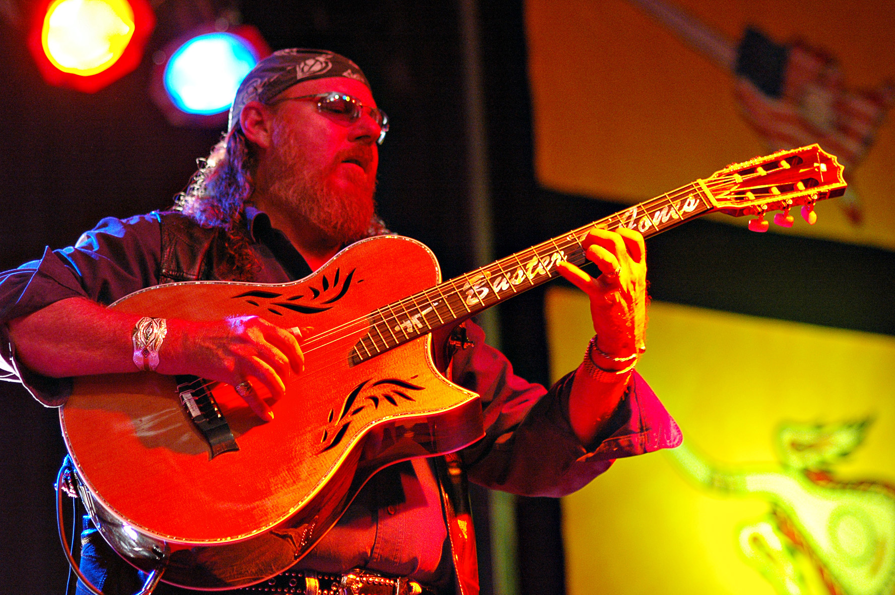 American fingerstyle guitarist Buster B. Jones playing his Dave Plummer custom built guitar at the 2nd Tommy Emmmanuel Guitar Festival in Rietberg/Germany in August 2005